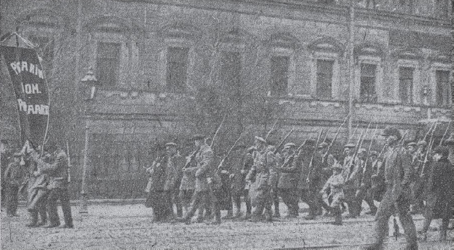 The St. Petersburg Finnish Red Guard at the 1918 May Day parade in St. Petersburg, Russia.